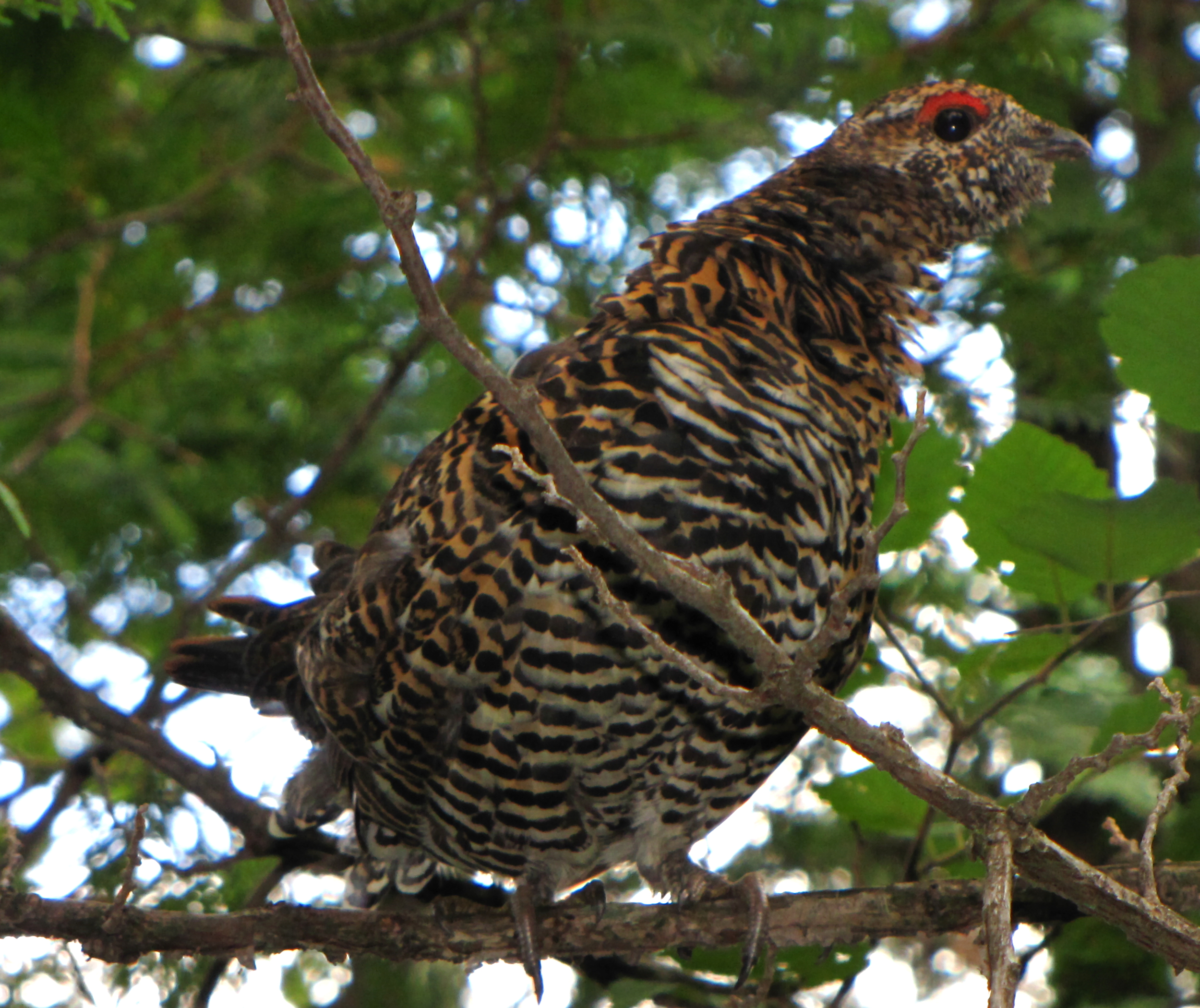 Immature male Spruce Grouse (Falcipennis canadensis), on portage to Matagamasi Lake, Chiniguchi River Park, Temagami, Ontario, Canada